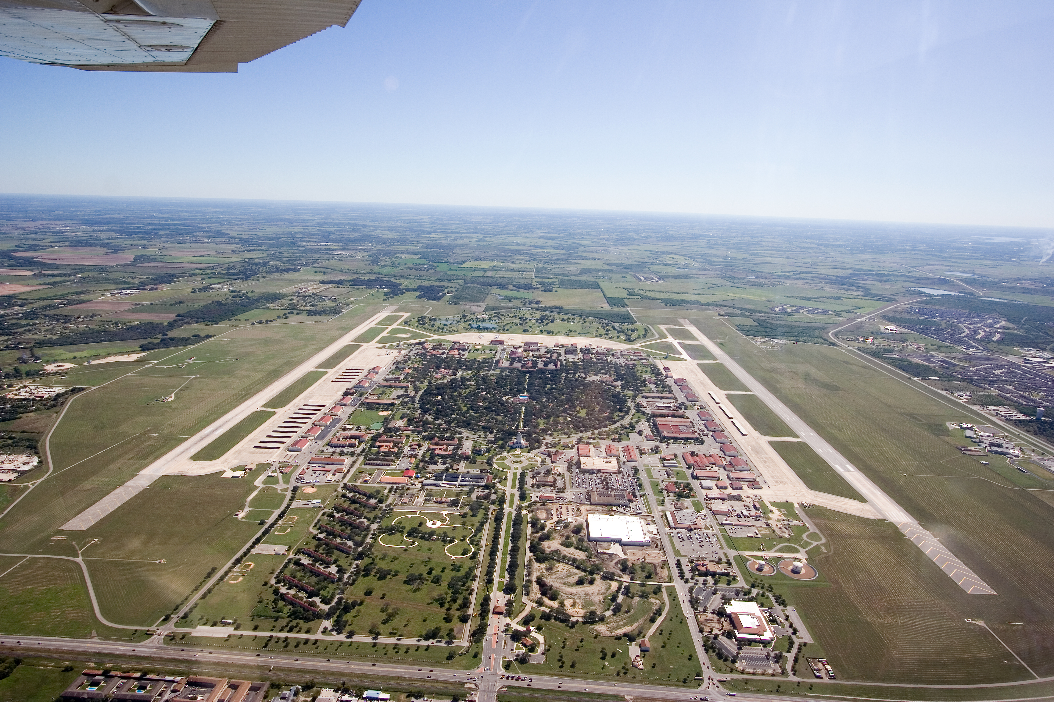 Aerial photo of Randolph Air Force Base from 2500 feet.